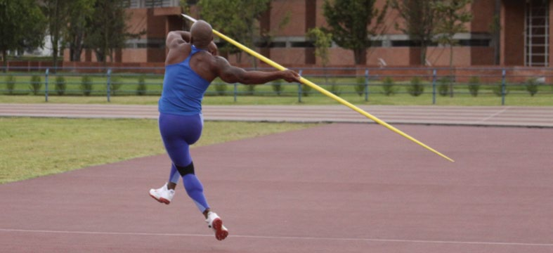 javeline throw